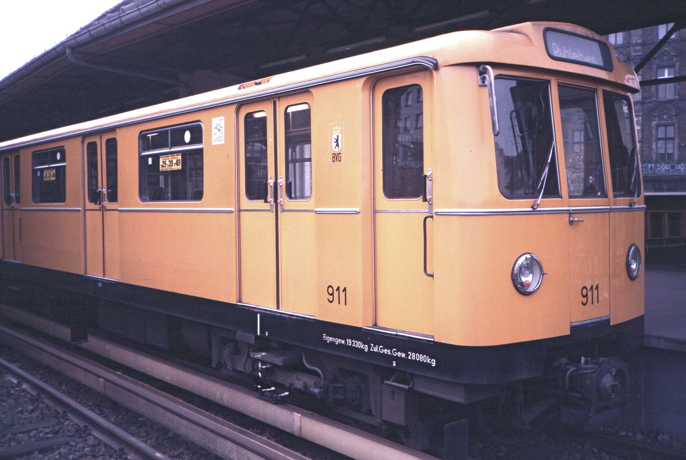 BVG train type A3 at Schlesisches Tor U-Bahn station, 1987